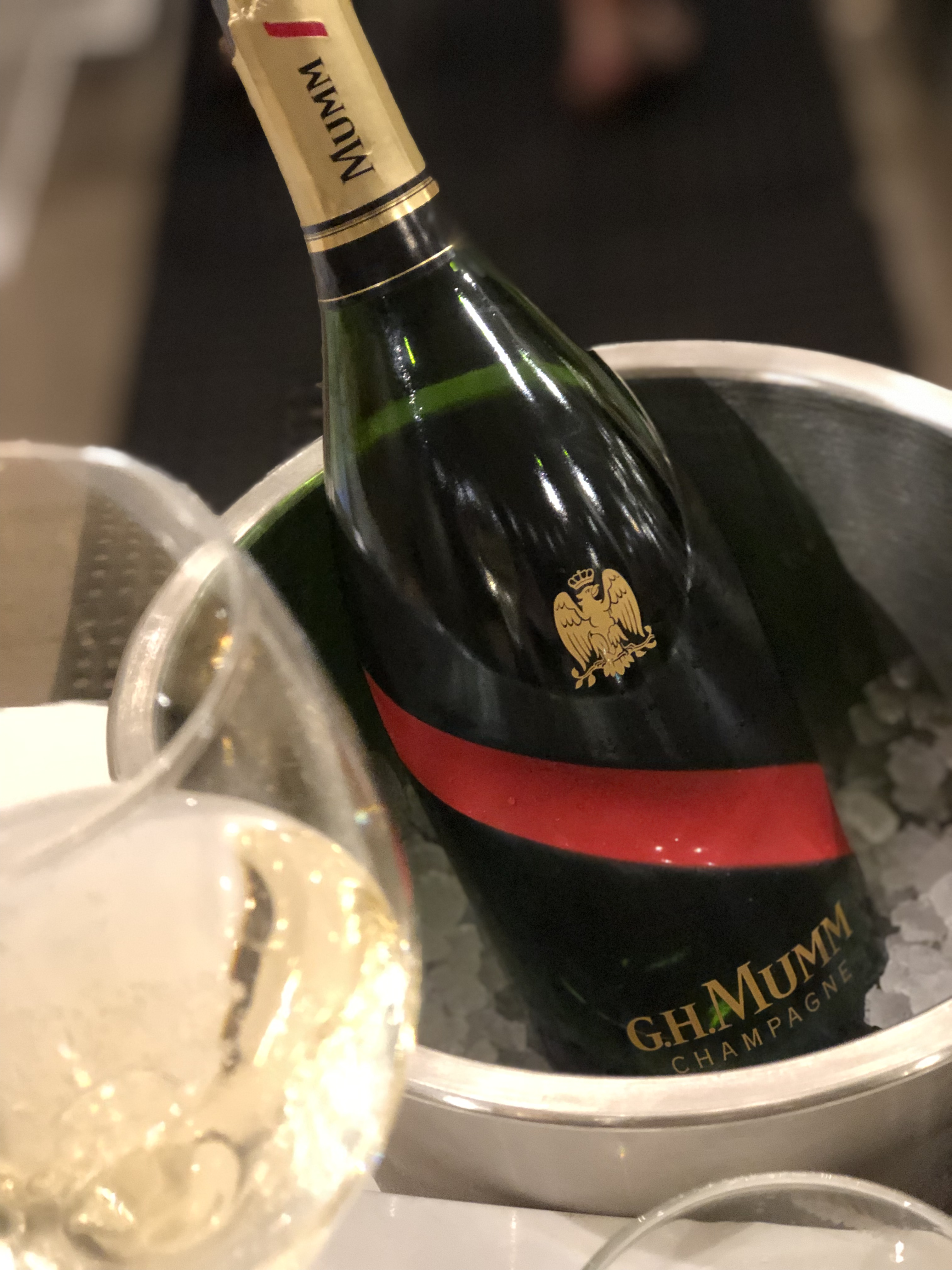 A bottle of G.H. Mumm Champagne at Sigh in Sonoma, California